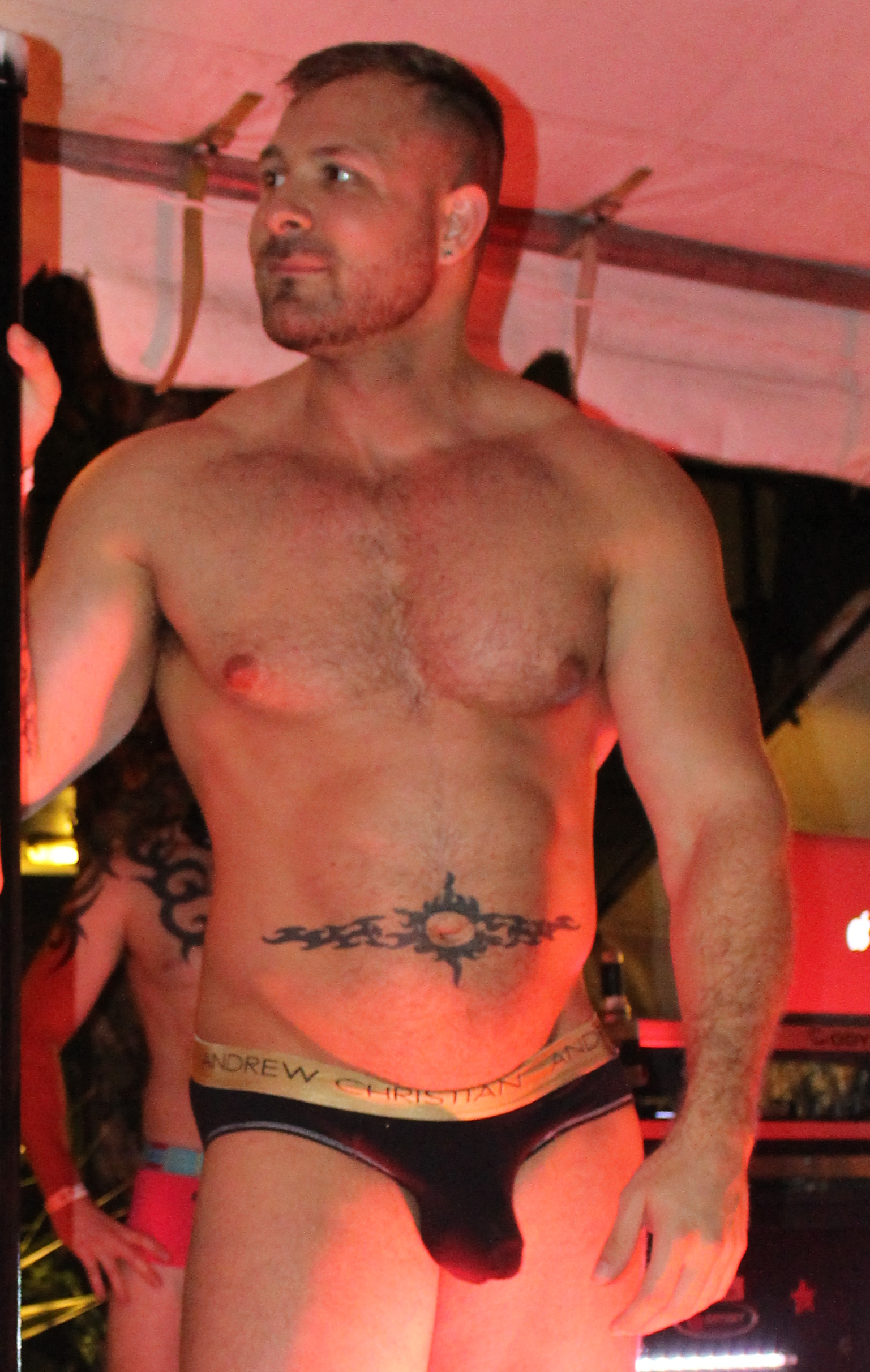 Indecent Exposure Parliament House, Orlando, Florida August 19, 2015 "Are You Smarter than a Second Grader?" Strip Trivia with Ryan Rose and Austin Wolf, hosted by Gidget Galore